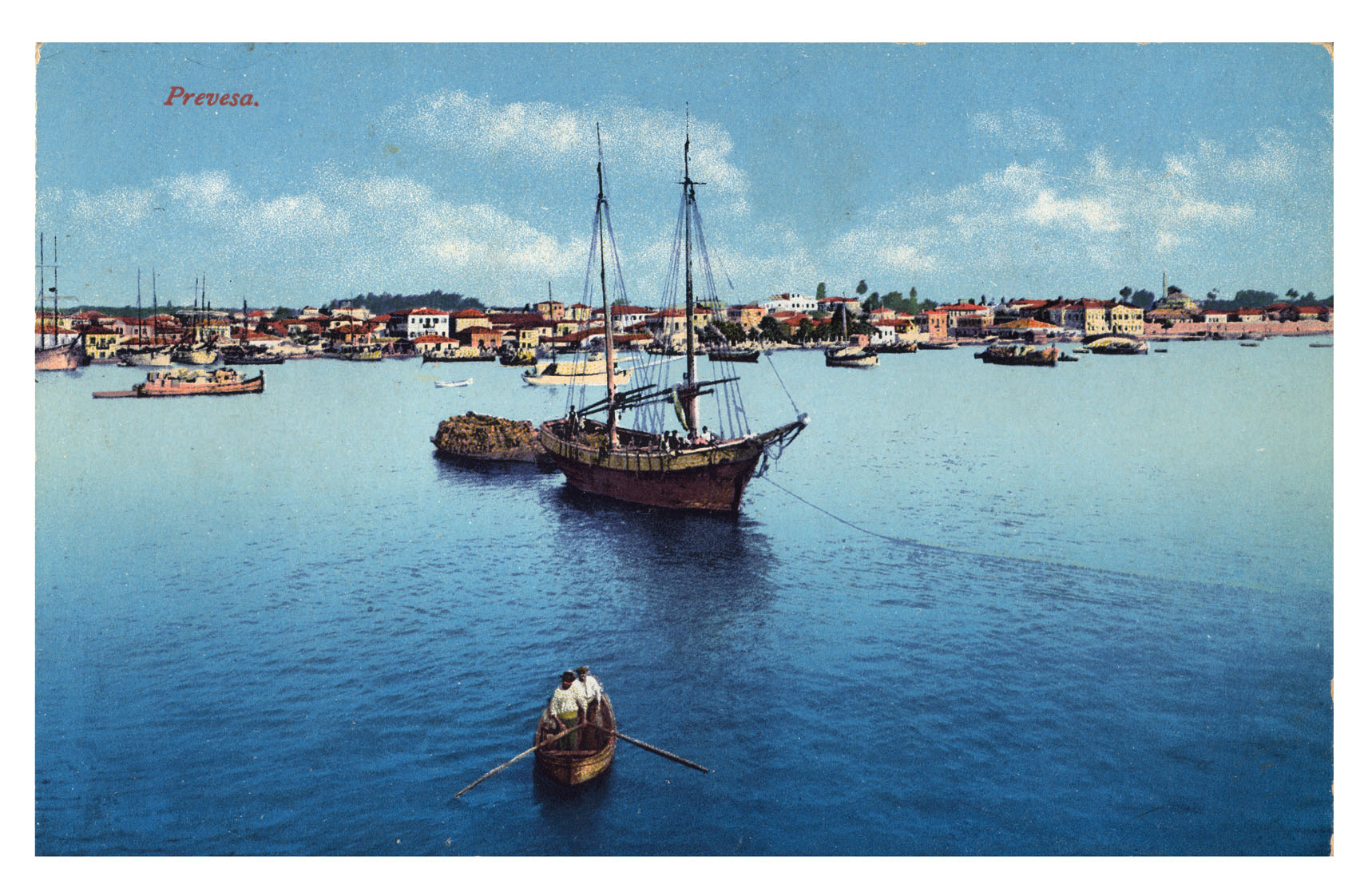 Preveza